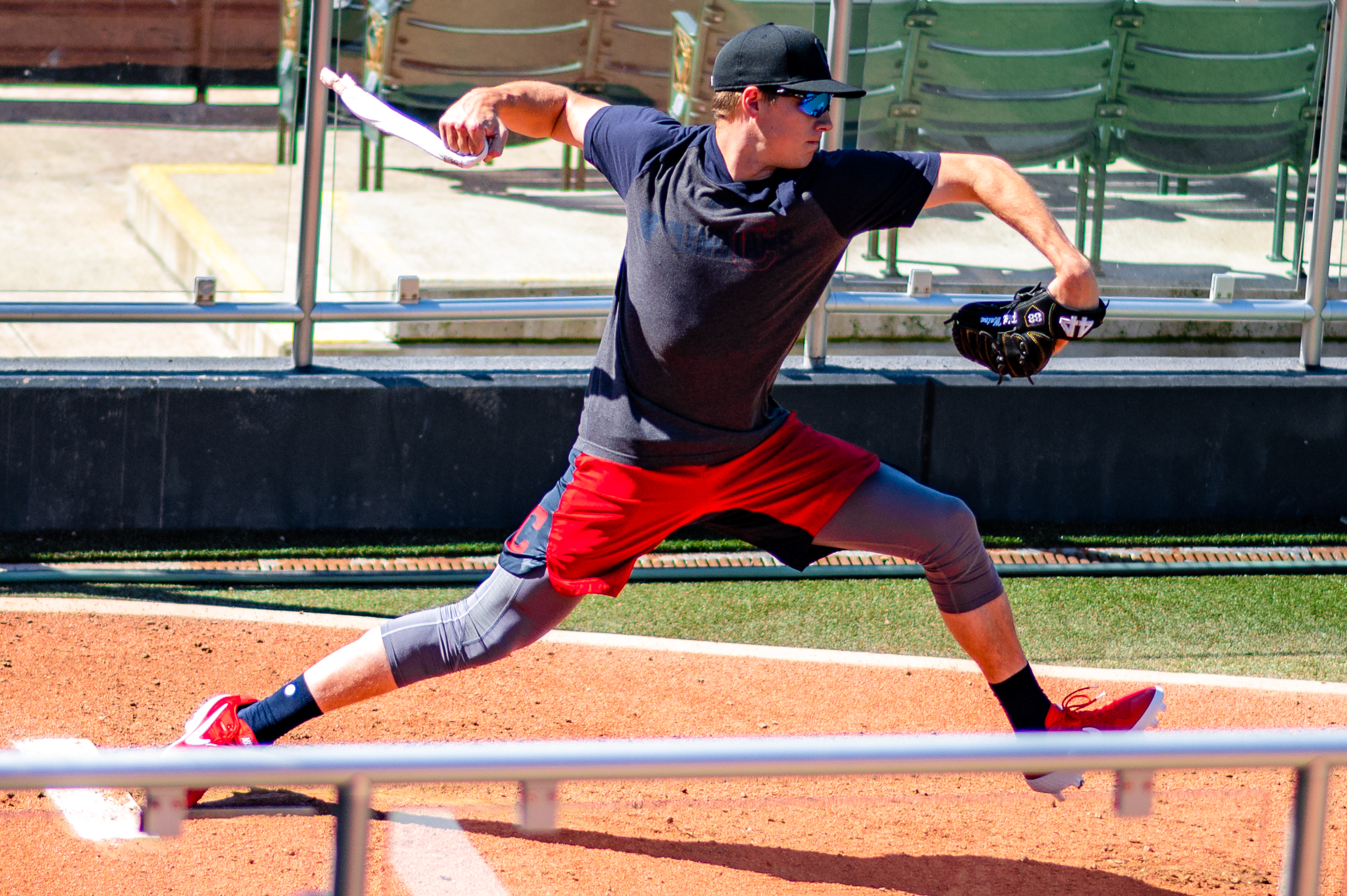 Cleveland Indians vs. Kansas City Royals